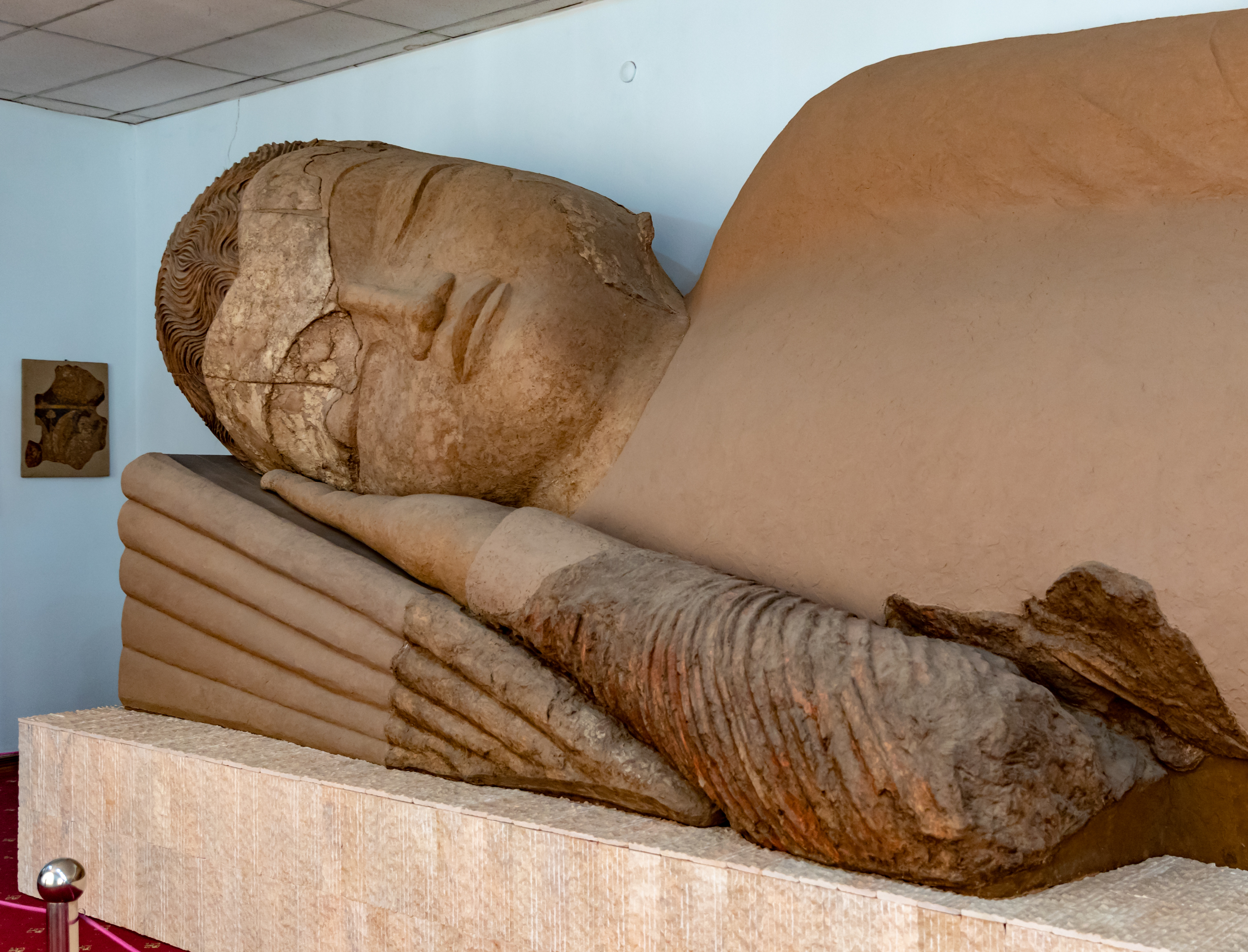 Zoroastrian, Buddhist, Hellenistic, Islamic and unique Pamir cultures had been developing in Tajikistan for thousands of years. The exposition is divided into periods starting with 4th millennium B.C. and ending with the beginning of the 20th century. The collection includes findings from the entire territory of Tajikistan, large archaeological excavations of Sarazm, Ajina-Tepe, Tahti-Sangin and such cities as Khujand, Panjakent, Kurgan-Tyube, Istaravshan, Kulyab. The most valuable and popular exhibit in the Museum of Antiquities of Tajikistan is Buddha in Nirvana. The statue of Buddha lying on his right side was found in the 1960’s during the excavations in the town of Ajina-Tepe (surroundings of Kurgan-Tyube). The length of the sculpture is almost 13 meters, and weight is over 5,5 tonnes. The main exhibit in the museum is one of the largest monuments of Buddha in the whole world.